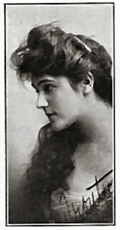 Ivy Troutman, actress